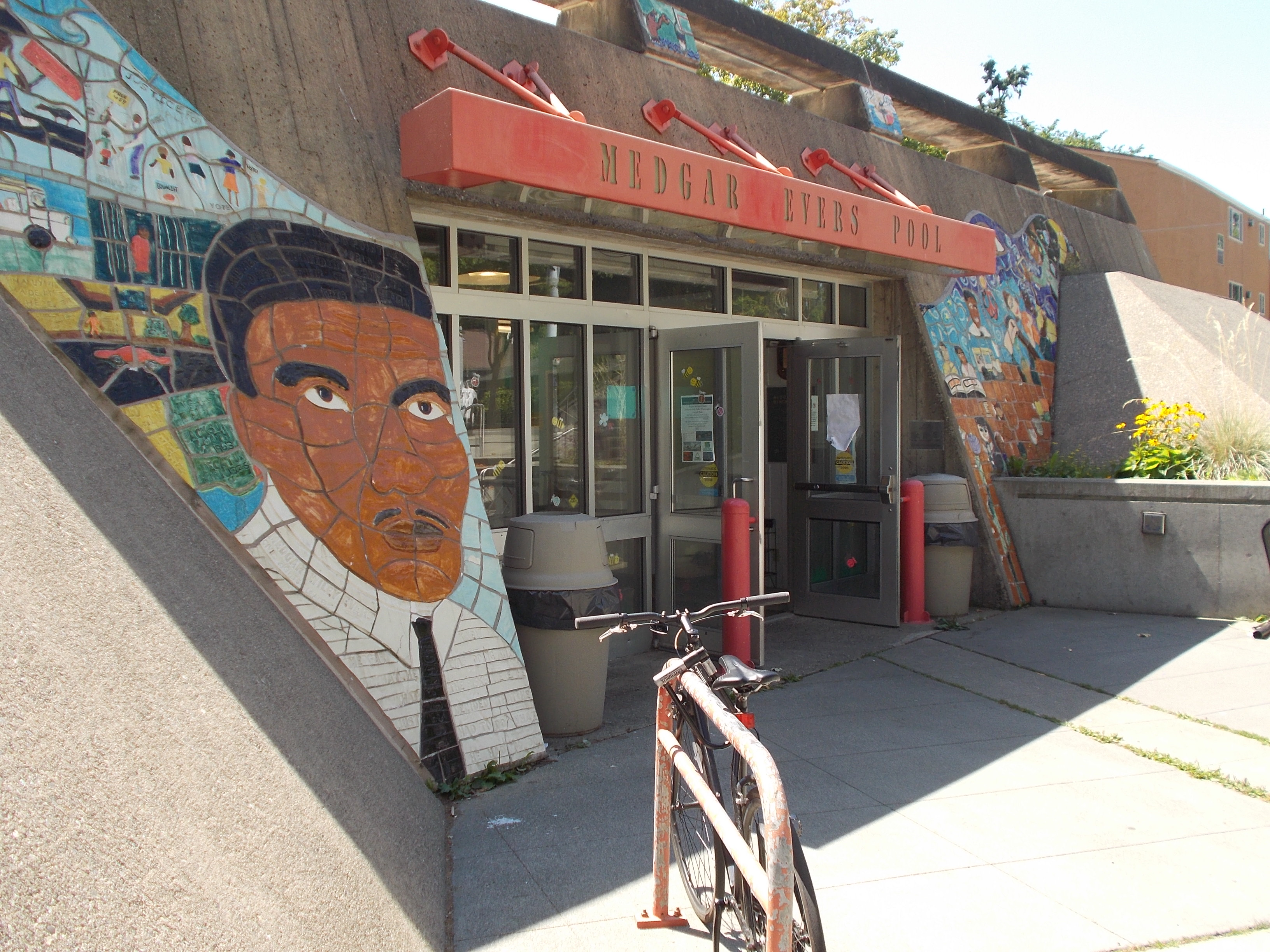 Medgar Evers Pool, Seattle.